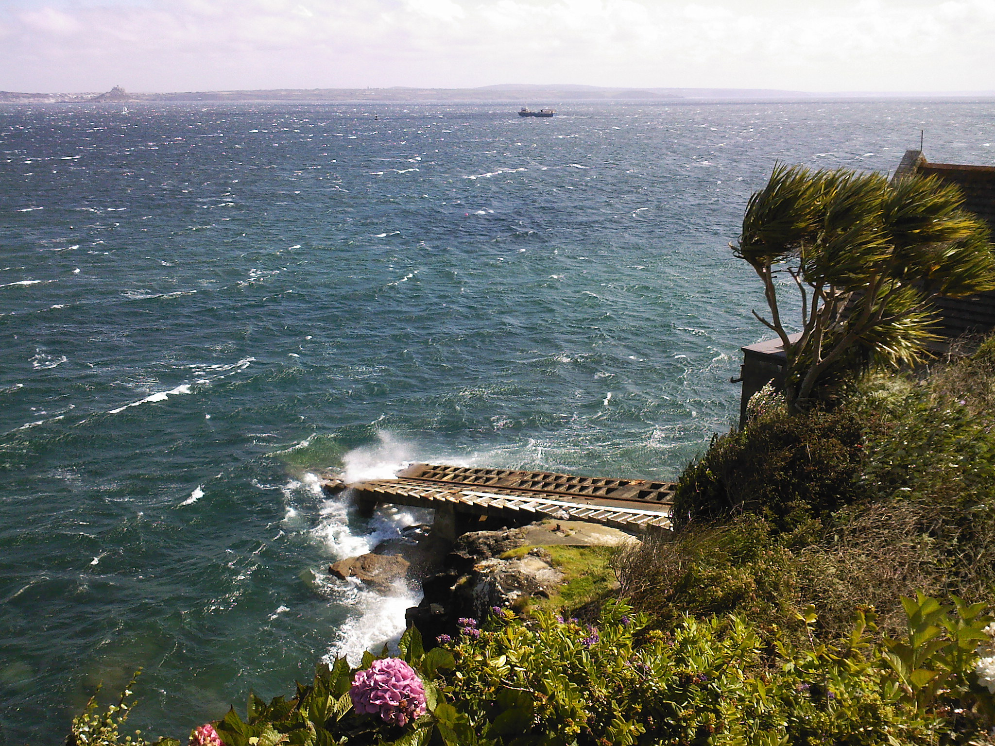 Penlee Lifeboat Station slipway, Penlee Point, Mousehole, Cornwall. Late August 2007.